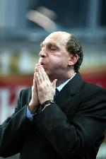 ANDREJ URLEP SAM PYKNAŁ